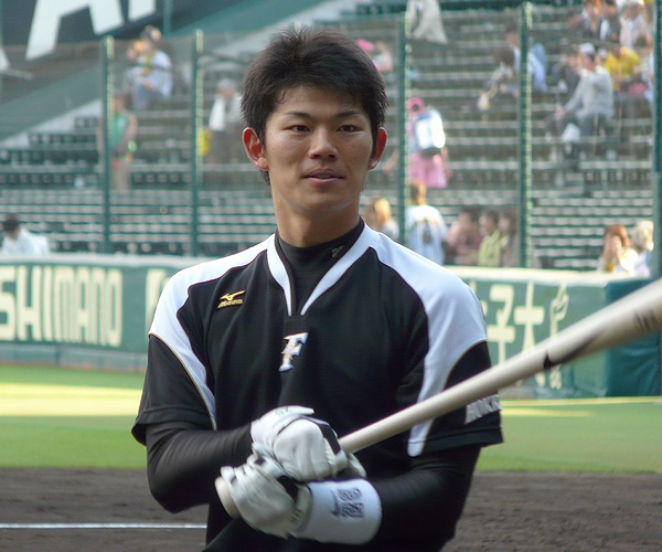 NF-Shota-Ohno20100513